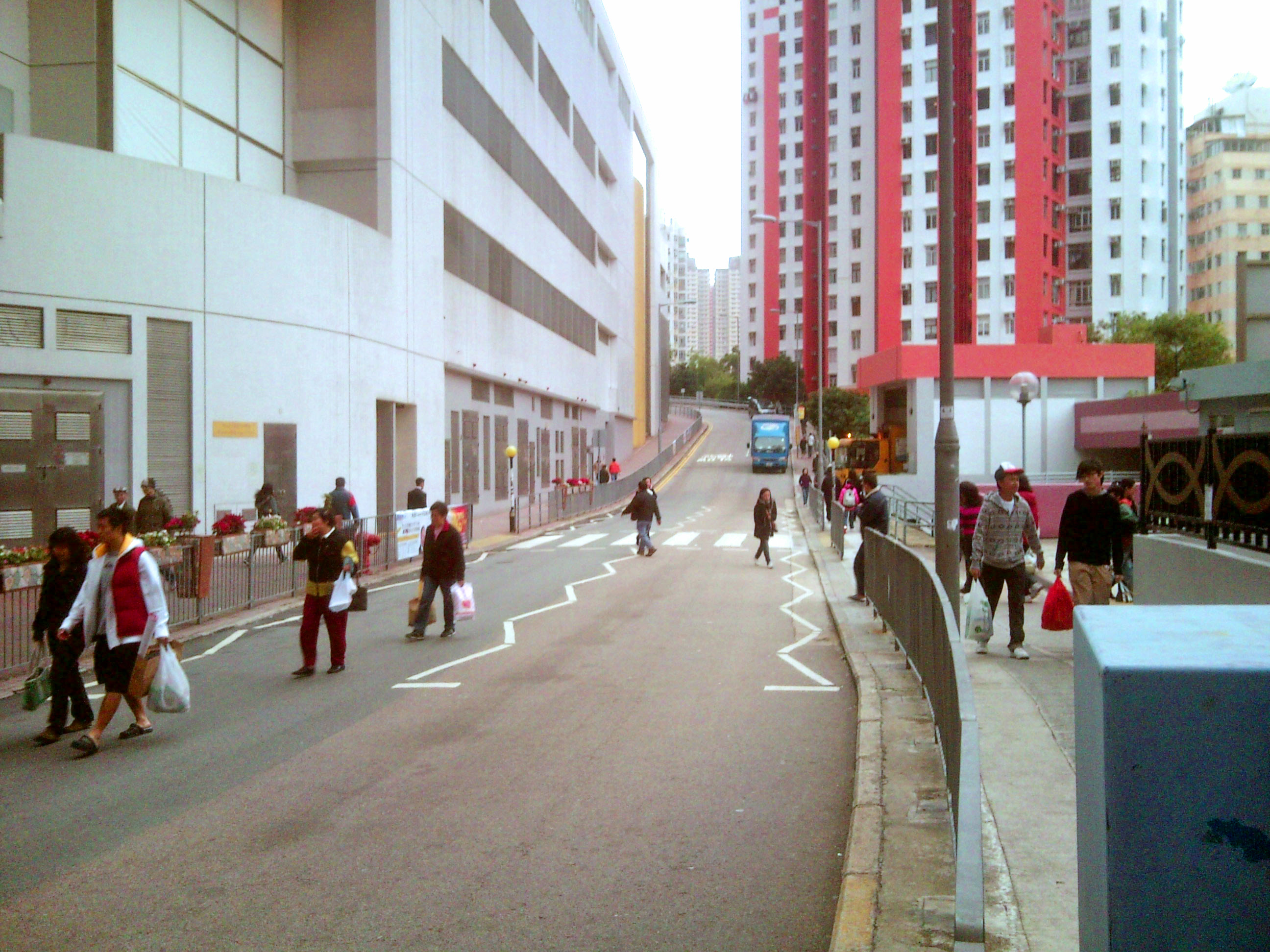 Yue Kwong Road Zebra Crossing